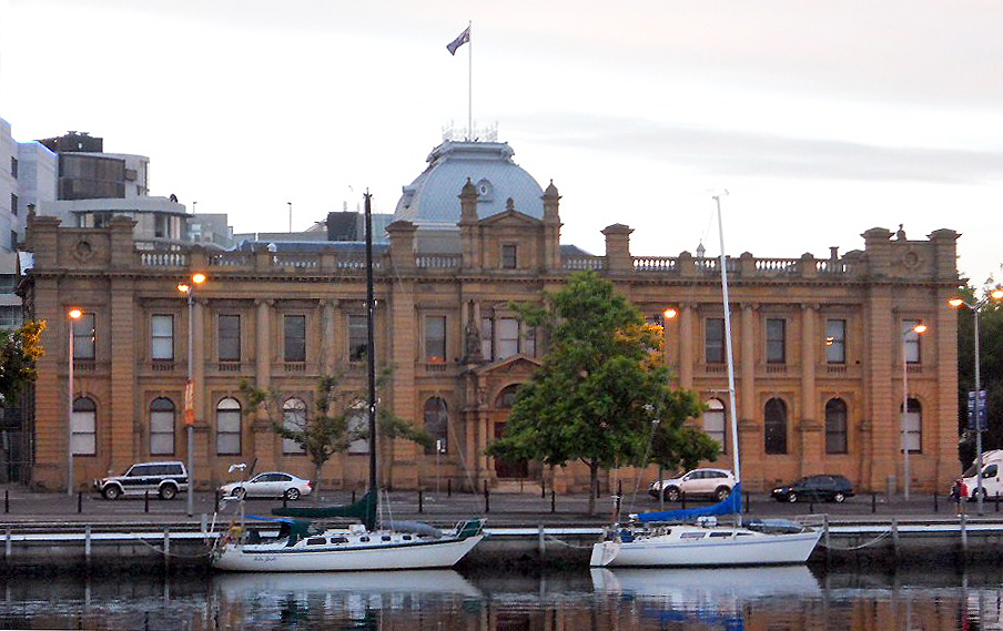 Hobart